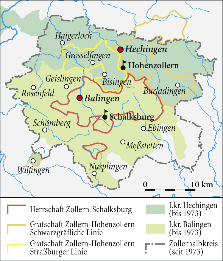 Former counties Hohenzollern within modern Zollernalbkreis